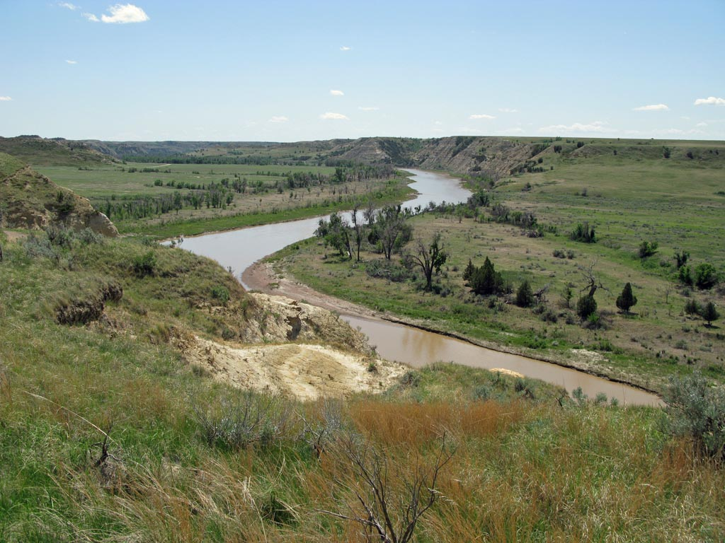 View of the Little Missouri River flowing through Theodore Roosevelt National Park in the U.S. state of North Dakota